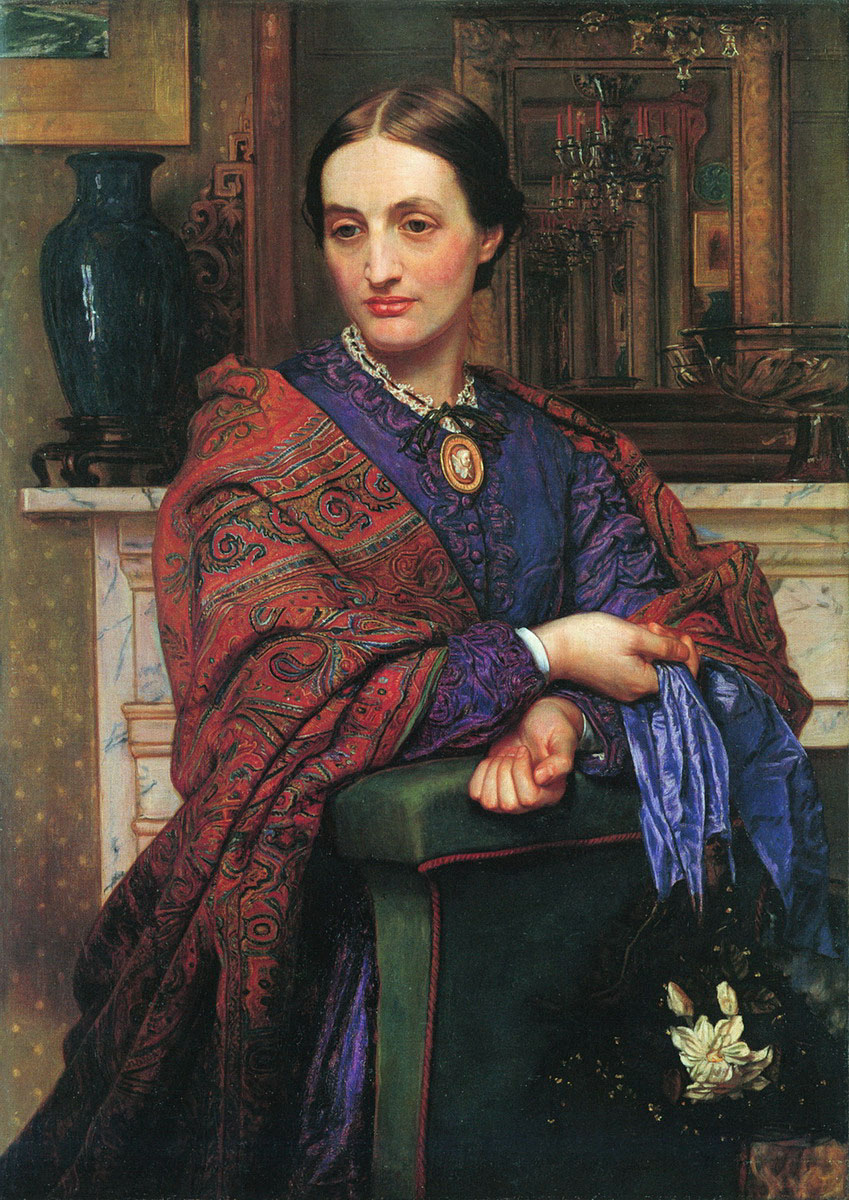 Portrait of Fanny Holman Hunt, 1866-1867, oil on canvas, private collection